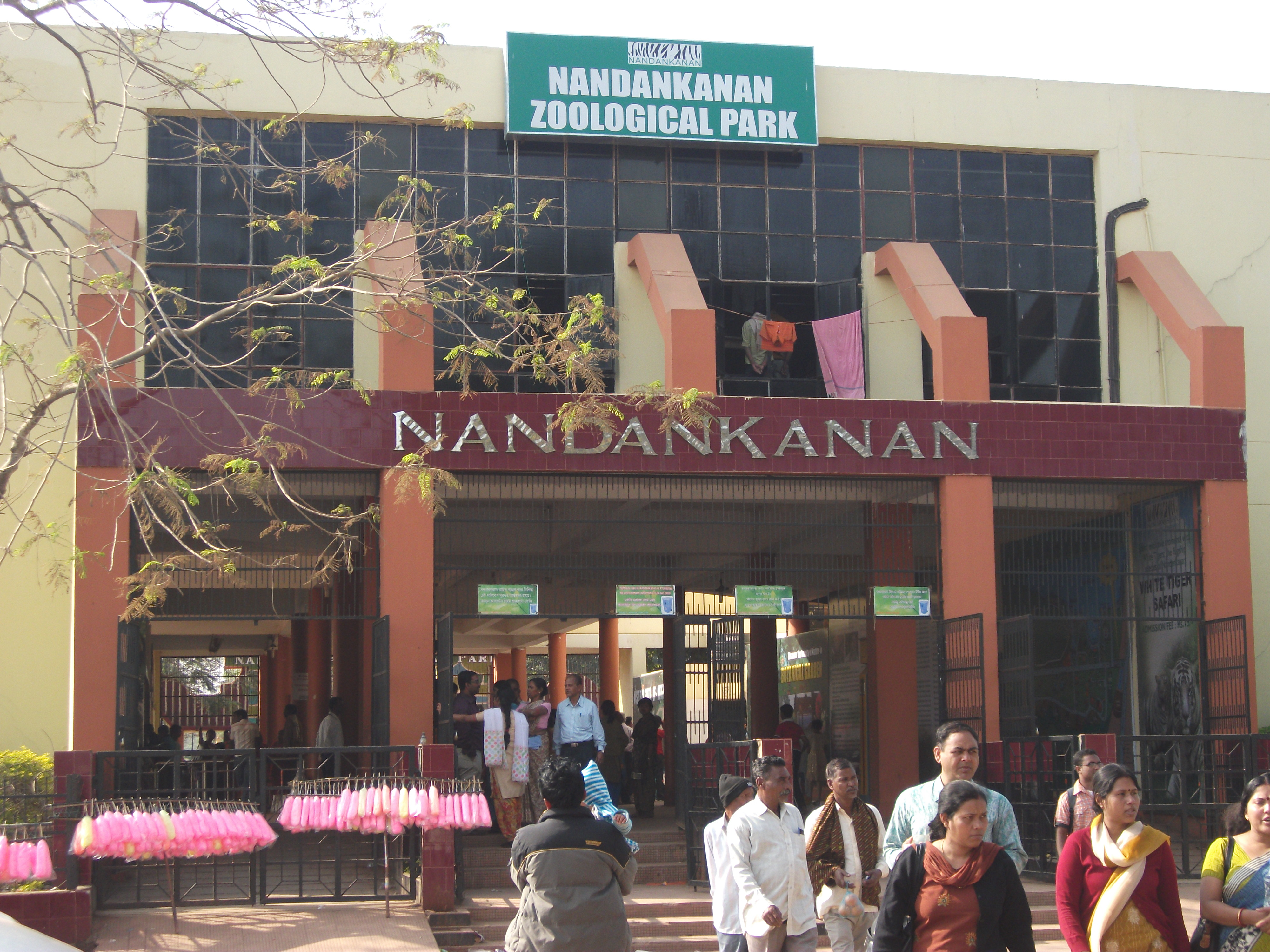 Nandankanan Zoological Park, Bhubaneswar,Odisha is famous as one of the best zoological park of the Nation.